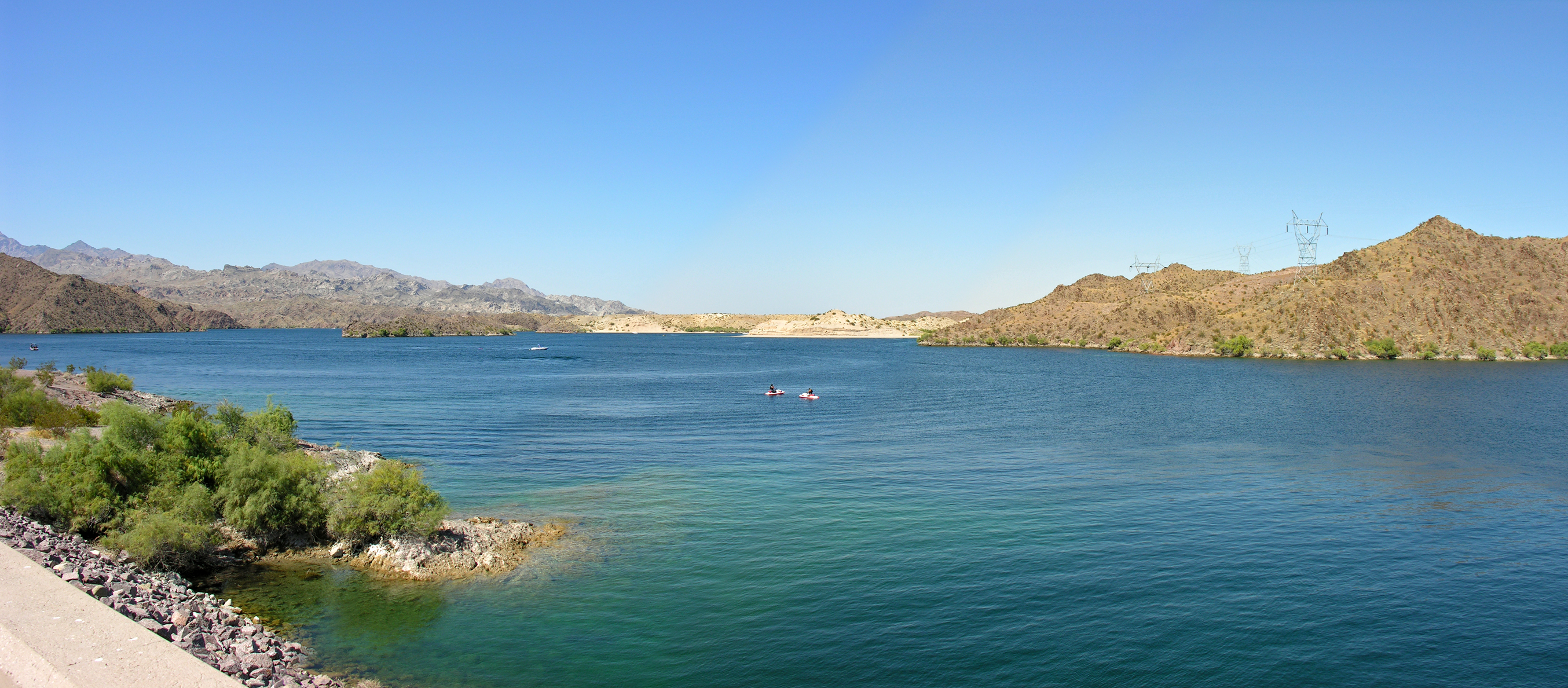 Lake Mojave — a reservoir on the border between southern Nevada and northwestern Arizona, in the Mojave Desert near Laughlin, Nevada. The reservoir is formed by Davis Dam on the Colorado River, in the Lower Colorado River Valley. Credits The picture was taken by me on September 16, 2005. I give permission for the picture to be used with attribution under the GFDL and Creative Commons.